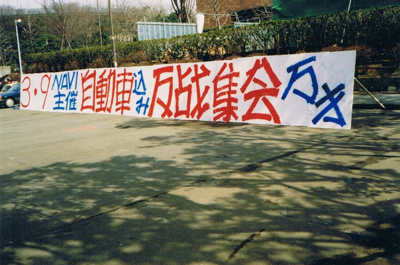 Anti Gulf War meeting held by a Japanese automobile magazine "NAVI" in 1991/03/09